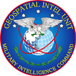 Geospatial Intelligence Unit-Military intelligence command.